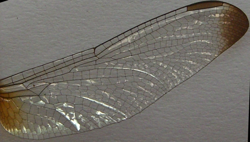 Description: Detail of the forewing of Erythrodiplax funera, (male)